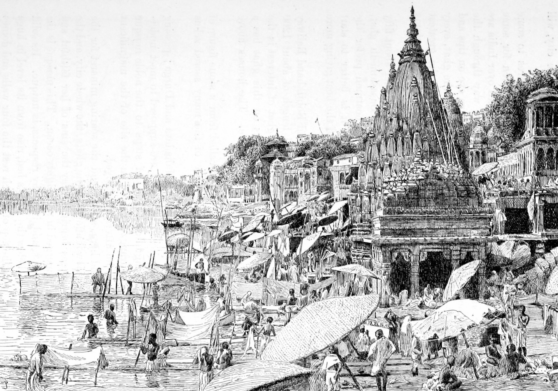 Image taken from: Title: "Picturesque India. A handbook for European travellers, etc. [With maps.]" Author: CAINE, William Sproston. Shelfmark: "British Library HMNTS 010057.ee.7.", "British Library OC ORW.1986.a.2996" Page: 353 Place of Publishing: London Date of Publishing: 1890 Publisher: G. Routledge & Sons Issuance: monographic Identifier: 000567709 Note: The colours, contrast and appearance of these illustrations are unlikely to be true to life. They are derived from scanned images that have been enhanced for machine interpretation and have been altered from their originals. If you wish to purchase a high quality copy of the page that this image is drawn from, please order it here. Please note that you will need to enter details from the above list - such as the shelfmark, the page, the book's volume and so on - when filling out your order. Explore: Find this item in the British Library catalogue, 'Explore'. Open the page in the British Library's itemViewer (page: 353) Download the PDF for this book Click here to see all the illustrations in this book and click here to browse other illustrations published in books in the same year. Please click on the tags shown on the right-hand side for other ways to browse the illustrations.